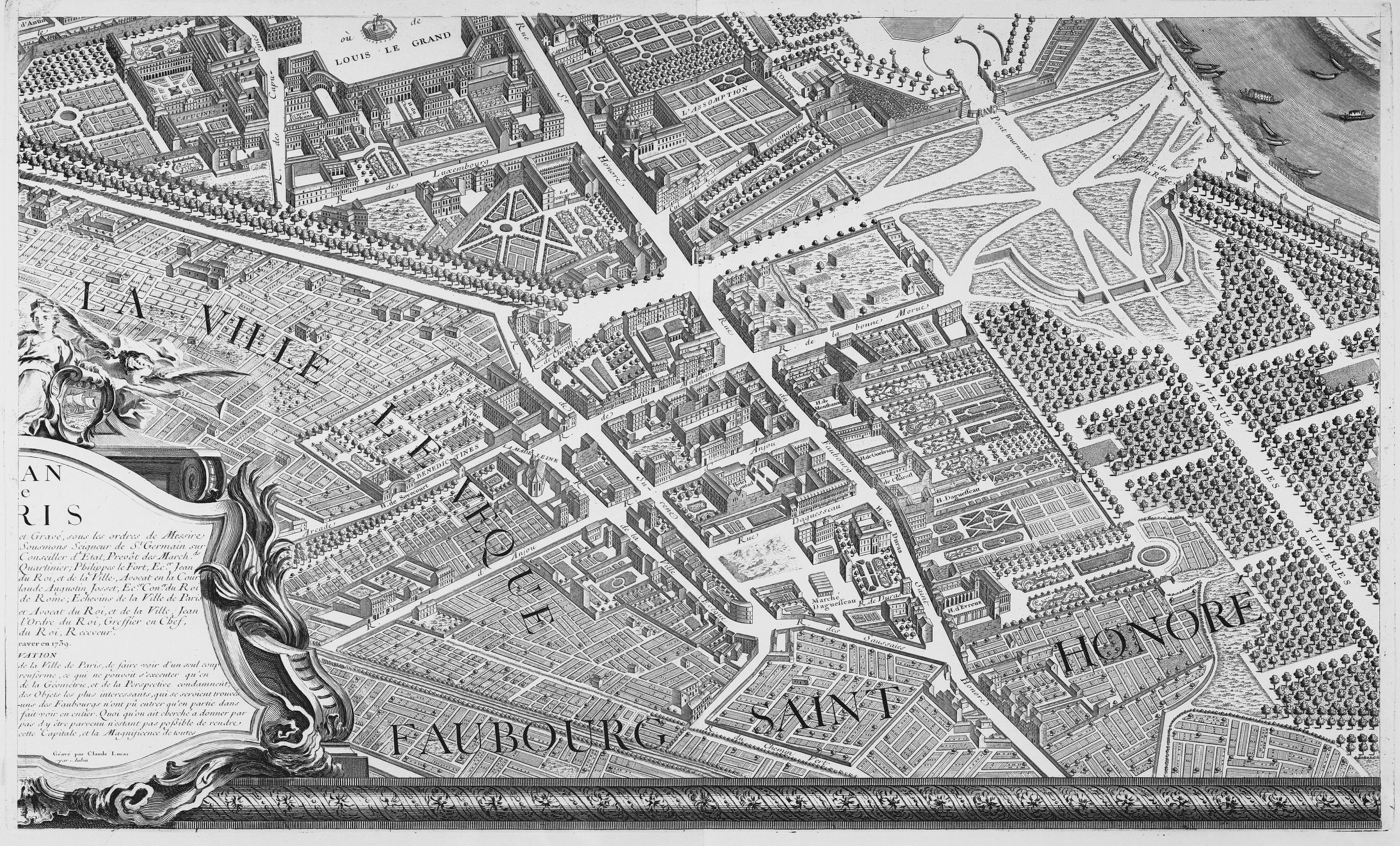 Plate 19 of the Turgot map of Paris